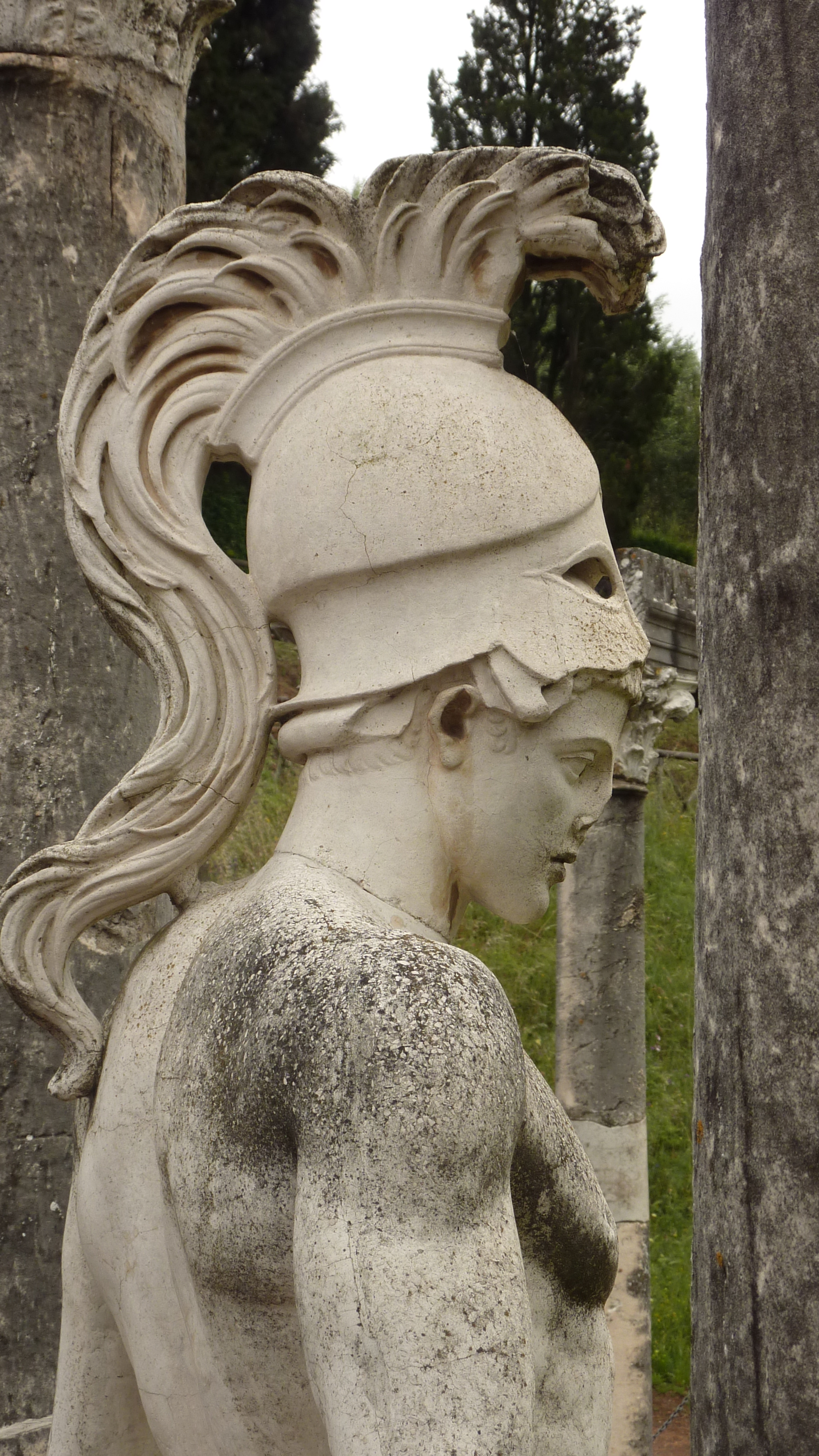 VIlla Adriana Greek Statue overlooking the pool